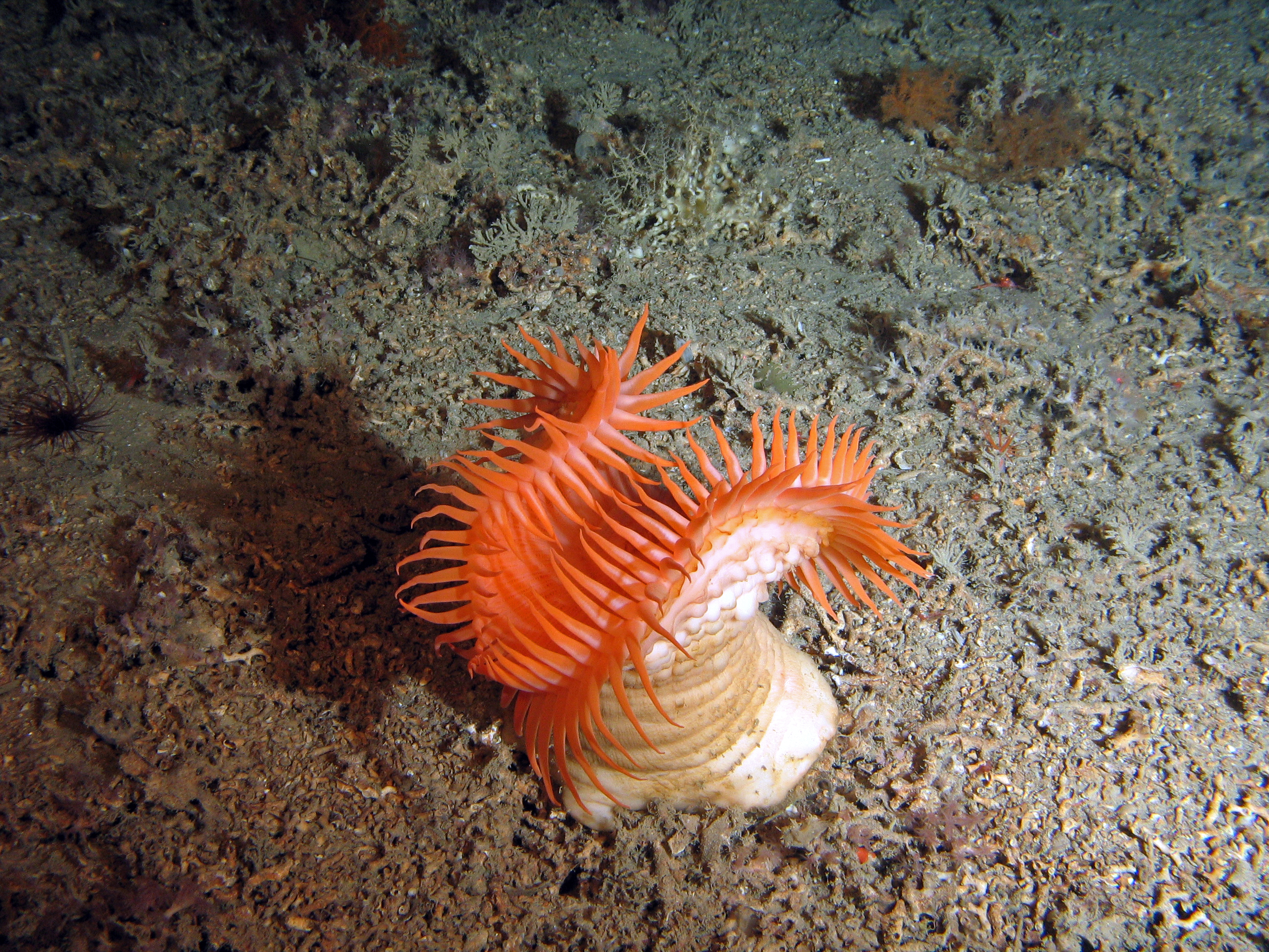 Venus flytrap sea anemone on a coral mound off Ire­land in 780 meters of wa­ter